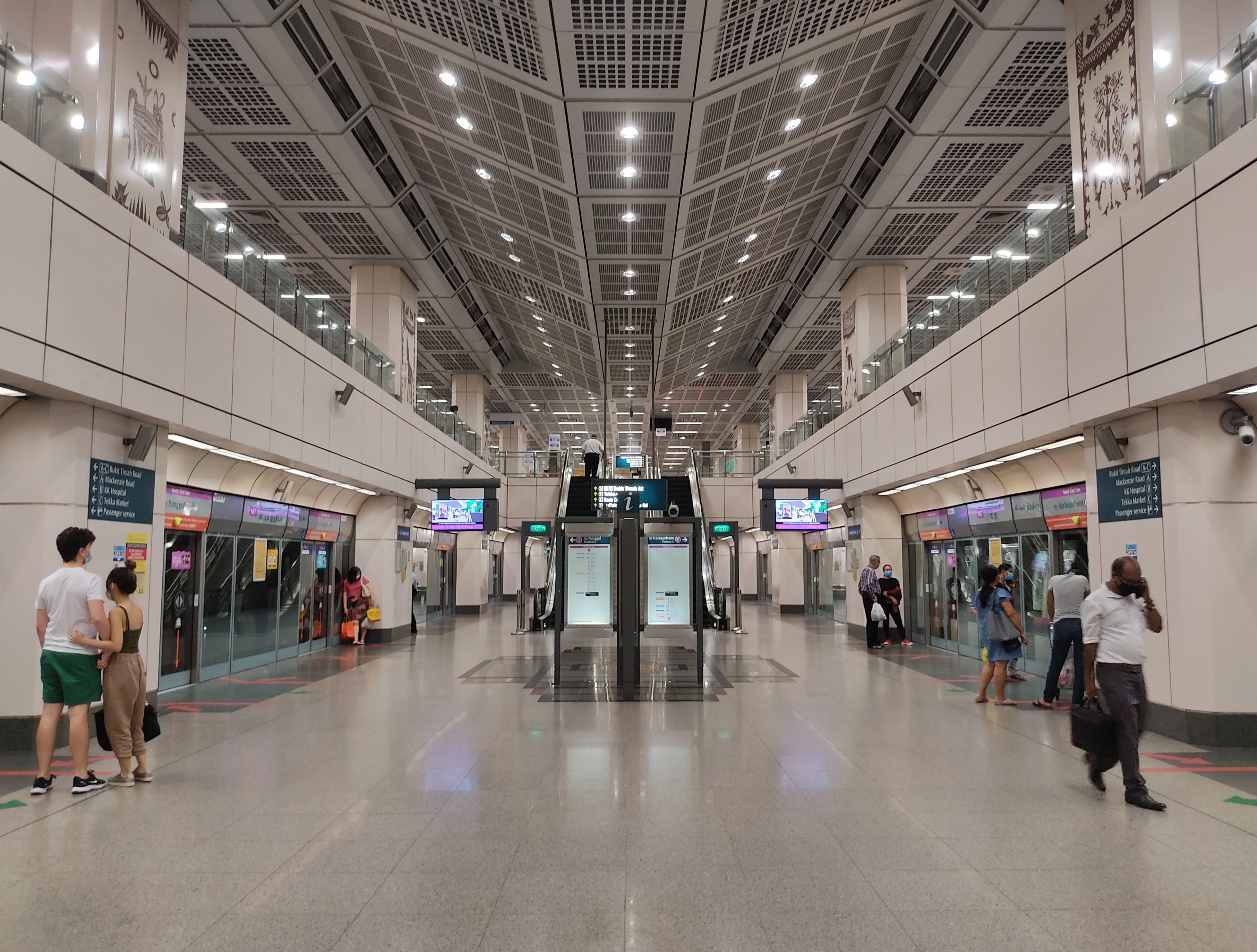 NEL platforms of Little India